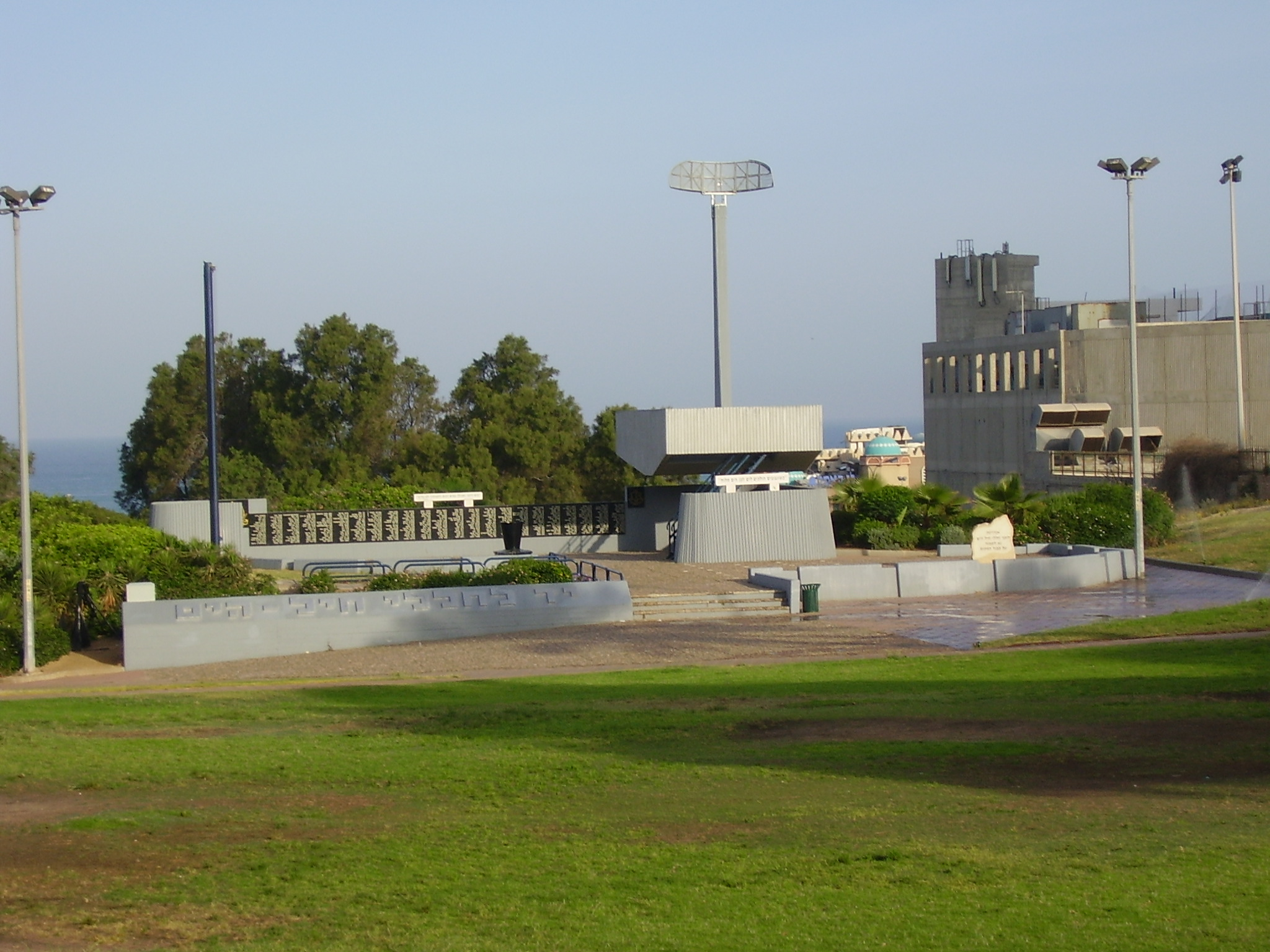 Israeli navy memorial in Ashdod, Israel